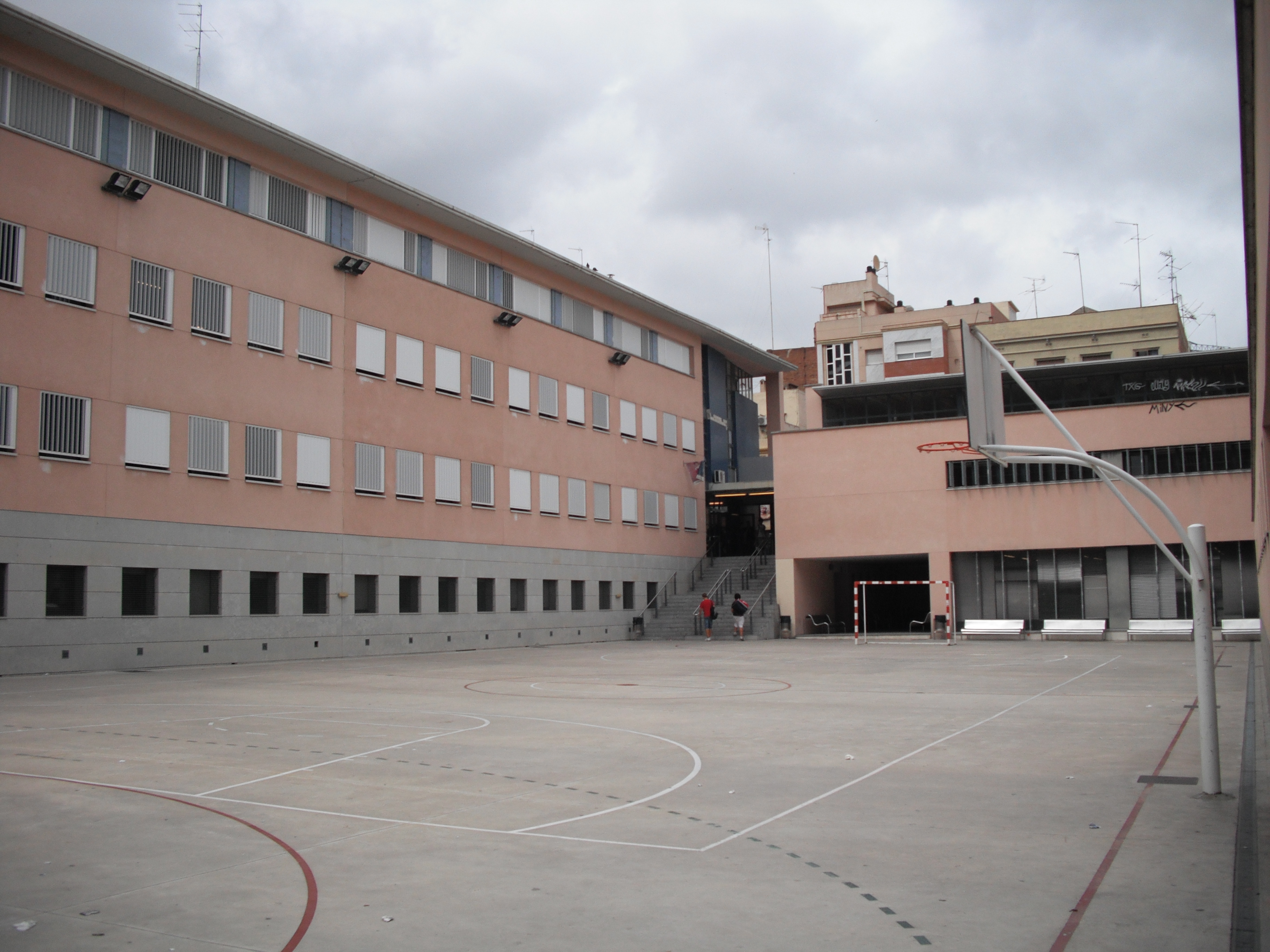 IES Secretari Coloma in Barcelona.